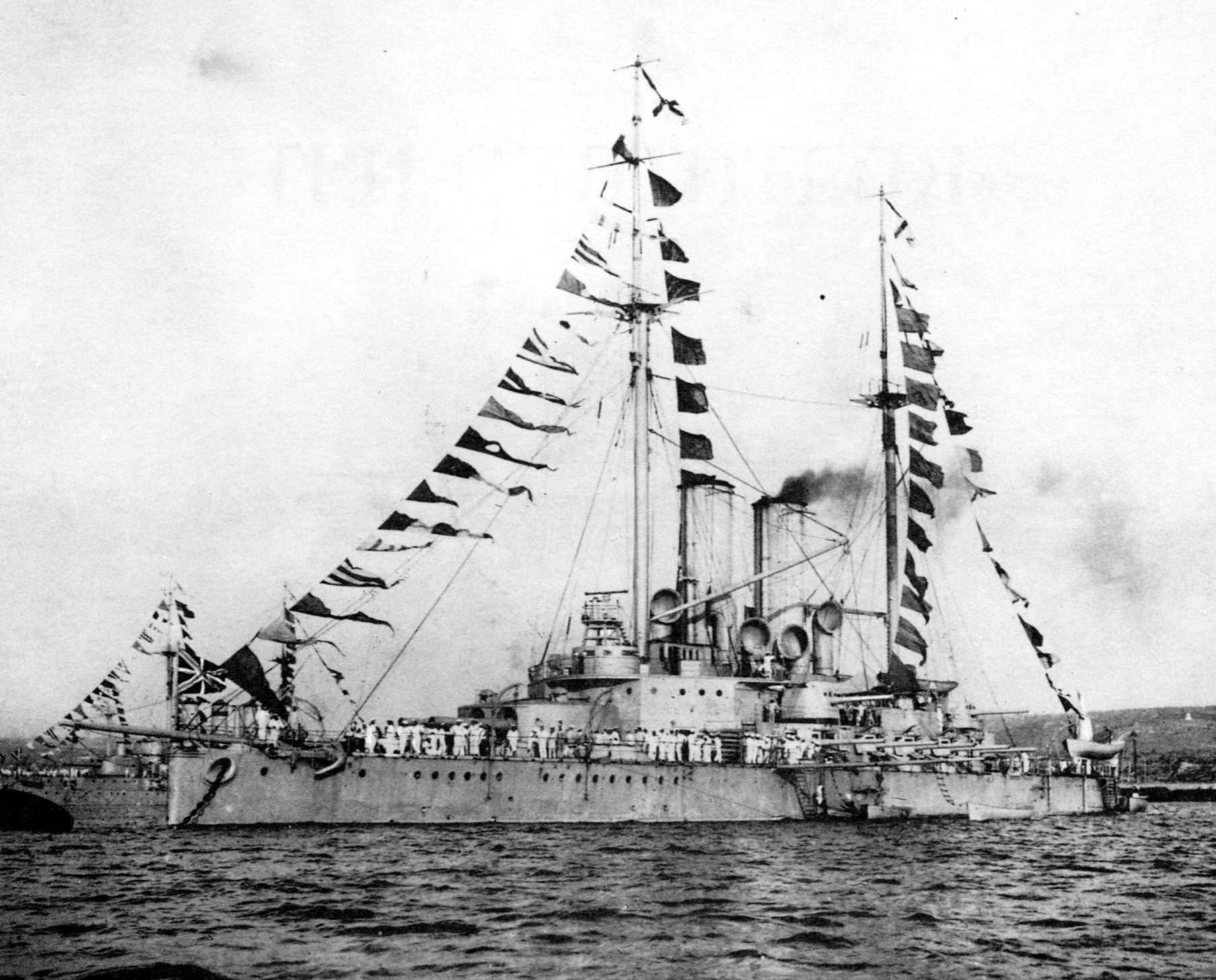 The Imperial Russian battleship Tri Svyatitelya in Sevastopol, 20 July 1914.